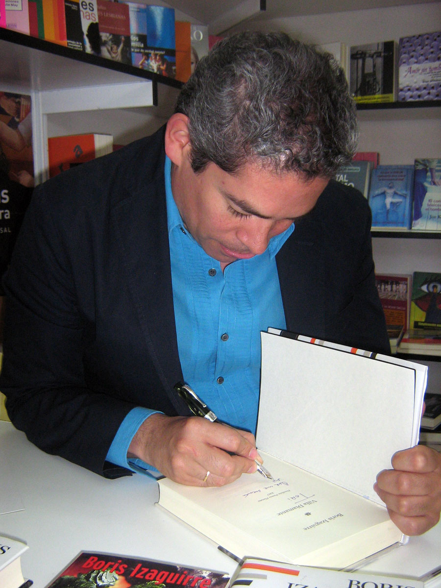 The writer Boris Izaguirre.